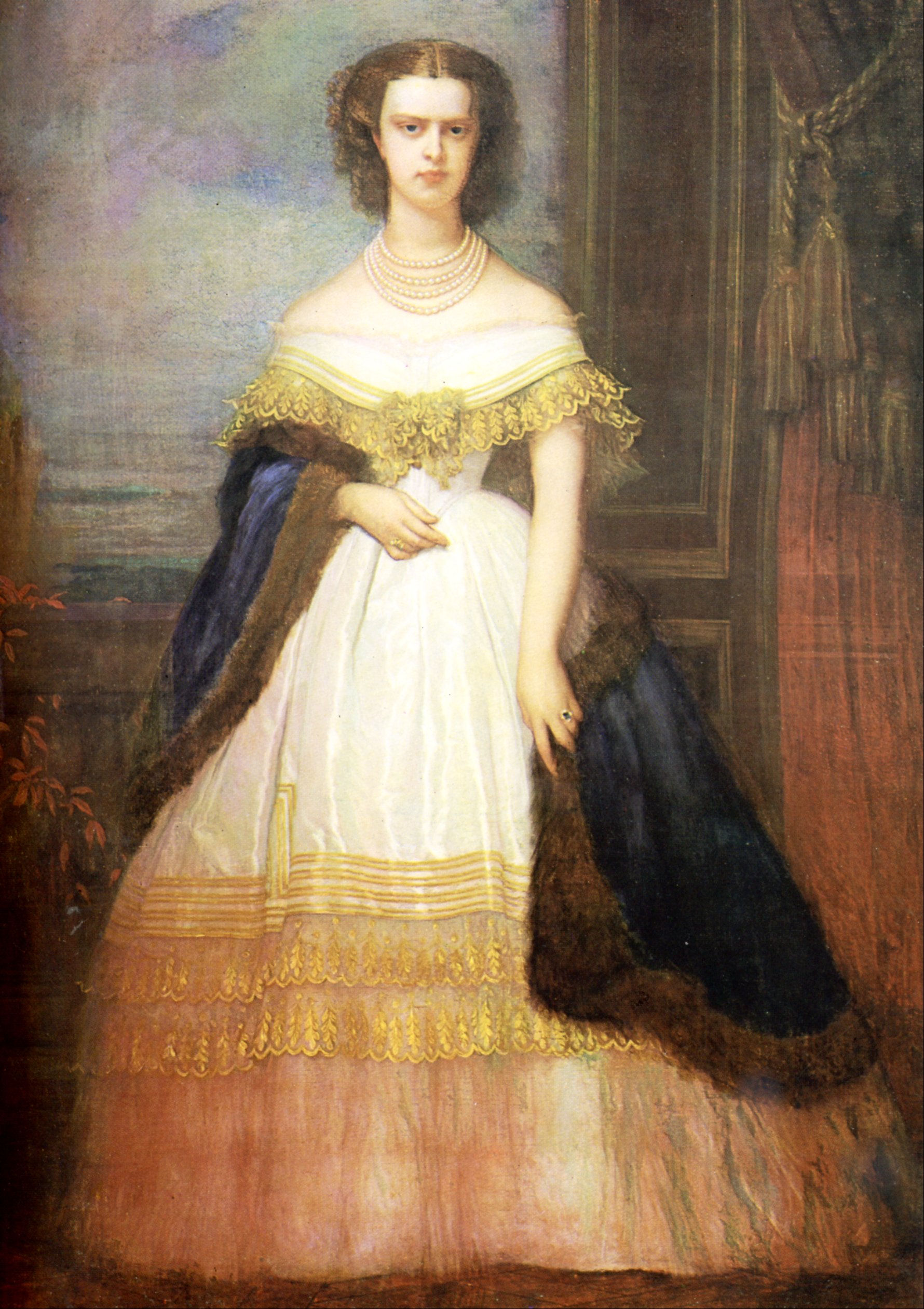 Marie-Clotilde de Savoie, princesse Napoléon